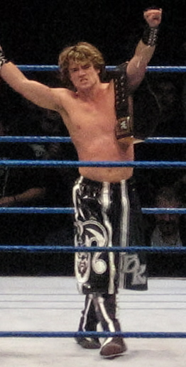 Brian Kendrick during a show of the WWE SmackDown Live Tour in Barcelona